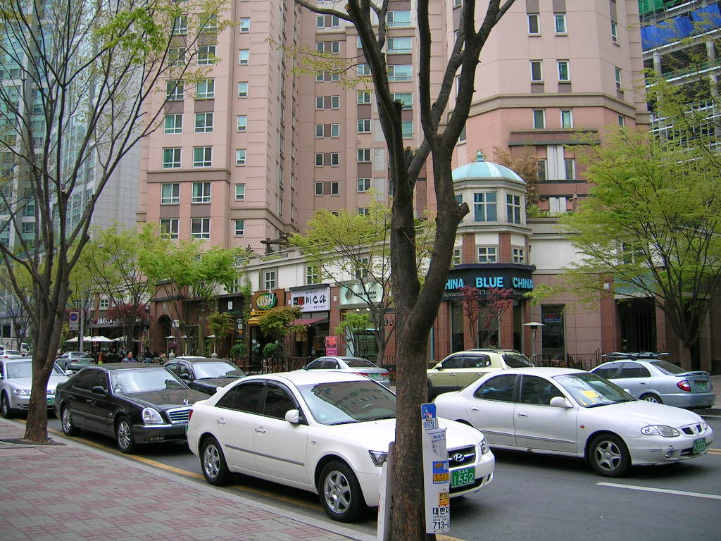 Jeong-ja-dong, Bundang, South Korea